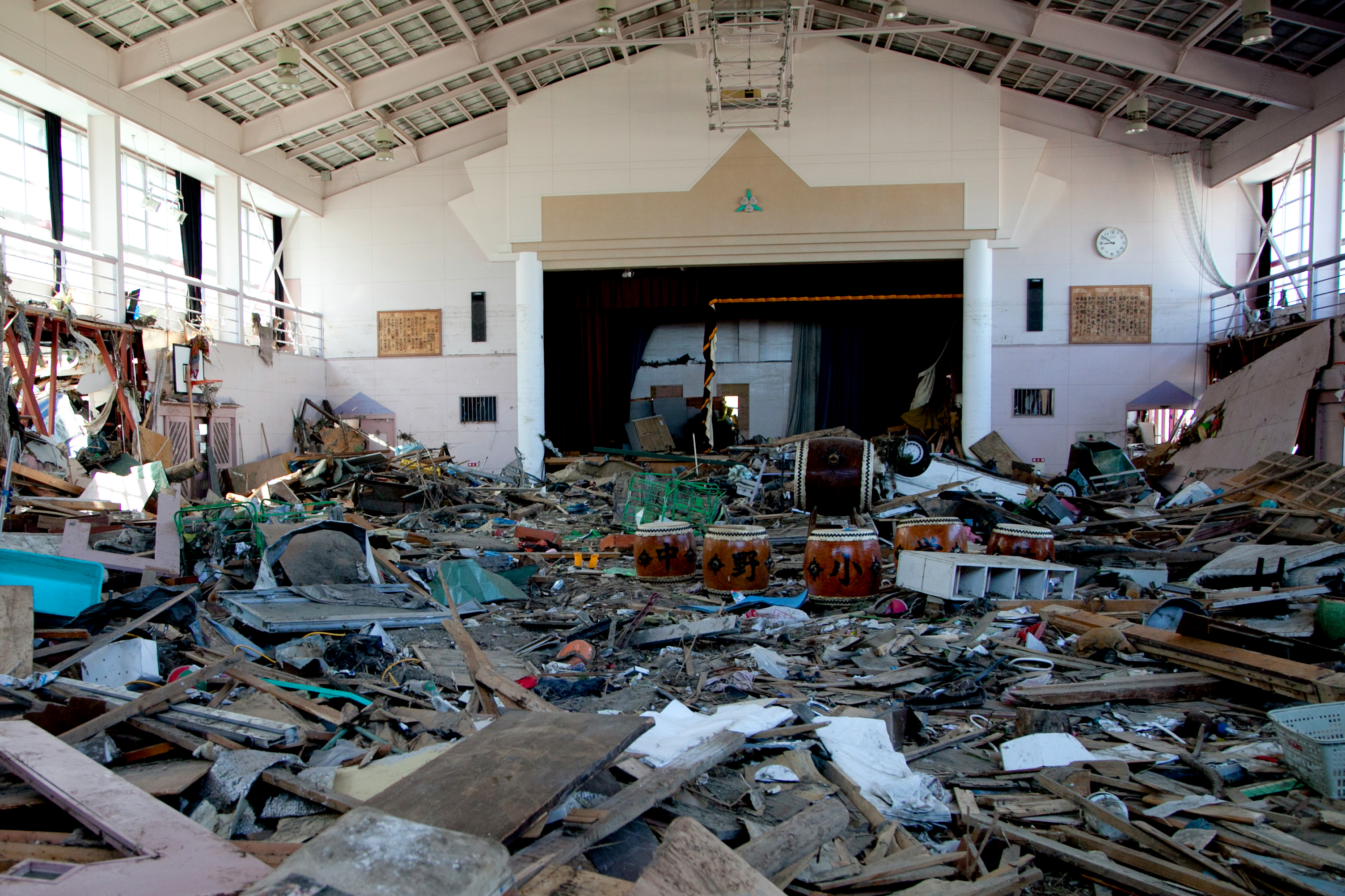 Photo shows a gymnasium of Sendai Municipal Nakano Elementary School (仙台市立中野小学校) in Miyagino-ku, Sendai, Miyagi prefecture, Japan, after the tsunami. Tsunami debris is piled up inside the Nakano Elementary School, April 6, 2011. Japan Self-Defense Force officers surveyed schools in the region during Operation Tomodachi. Operation Tomodachi was the name chosen by the Japanese government for the joint humanitarian assistance operation that took place in response to the magnitude 9.0 Tohoku earthquake and subsequent tsunami that struck northeastern Japan March 11, 2011. (U.S. Marine Corps photo by Cpl. Patricia D. Lockhart/Released) (revision of the original text)